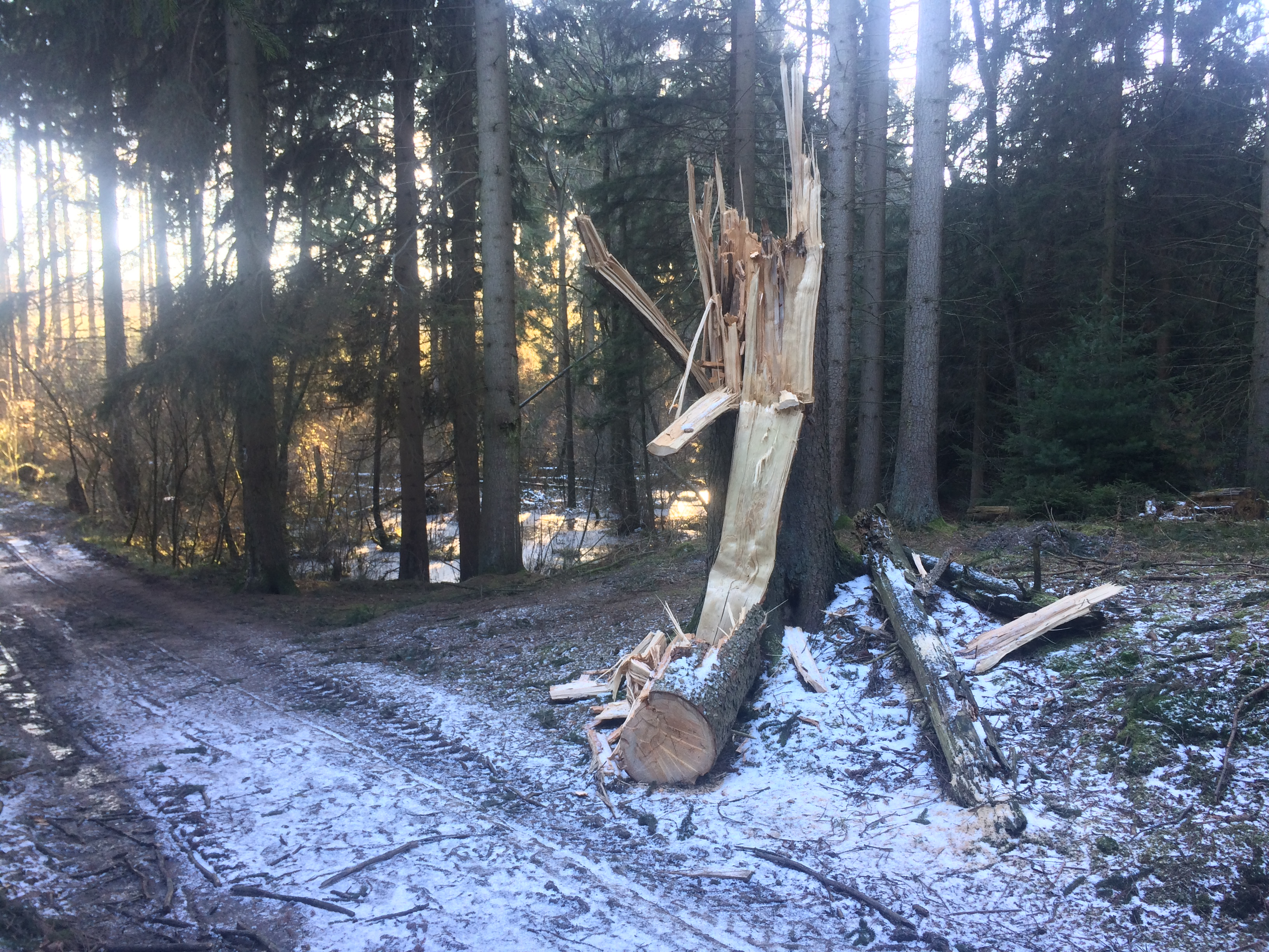 A tree that broke because of the storm "Friederike in 2018"!